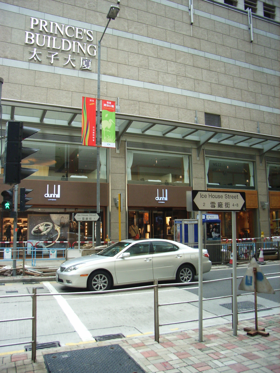 雪廠街 Ice House Street & Prince's Building, Central, Hong Kong by TangHon